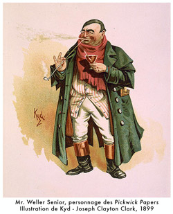 The Pickwick Papers: Tony Weller, Sam Weller's father